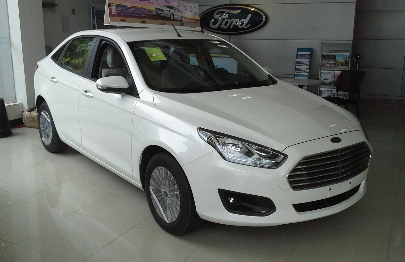 Ford Escort CN photographed in Wuhan, Hubei province, China.